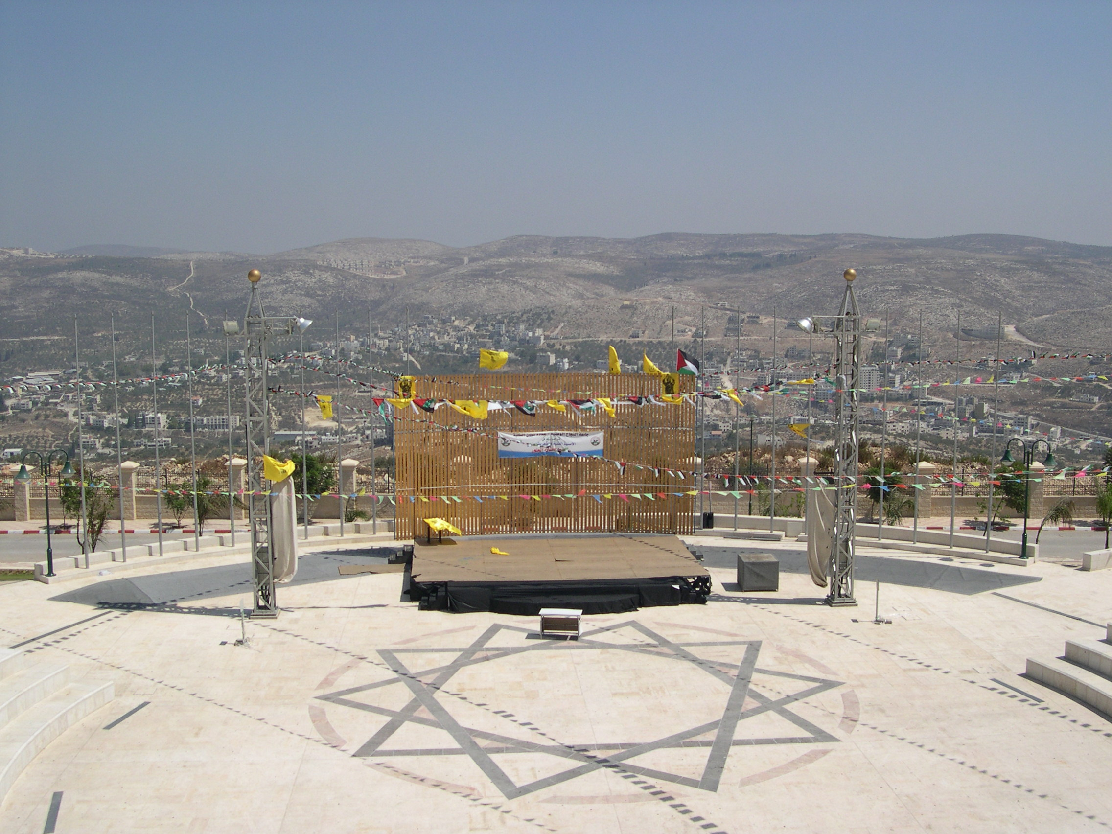 An-Najah National University amphitheater, Nablus